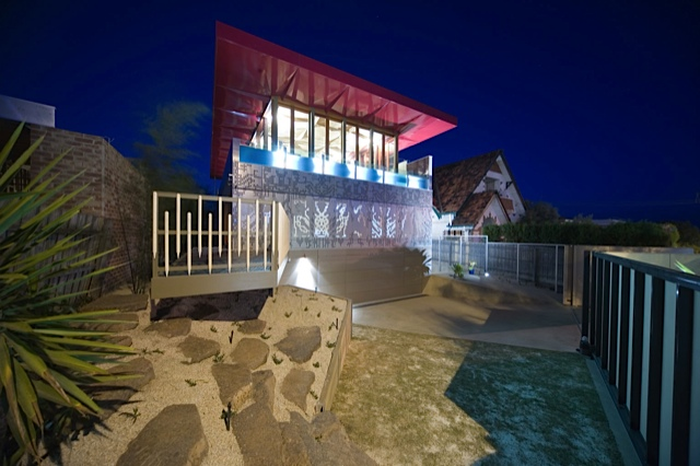 2006 The Smith Great Aussie Home – Black Rock, Melbourne, Australia.